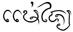 Lanna script – Mae Chai is a district (Amphoe) of Phayao Province in northern Thailand.